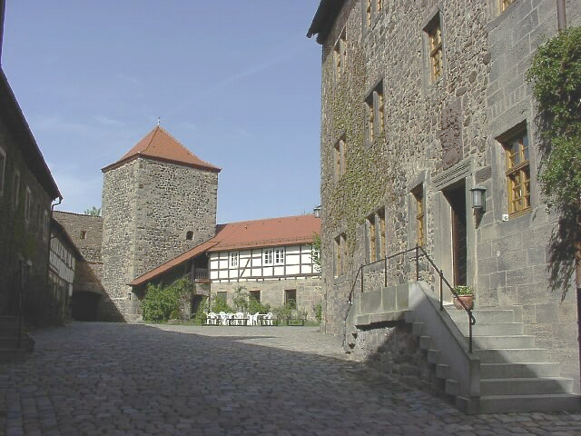 Burg Fürsteneck, castle and academy in Germany, view to the inner ward